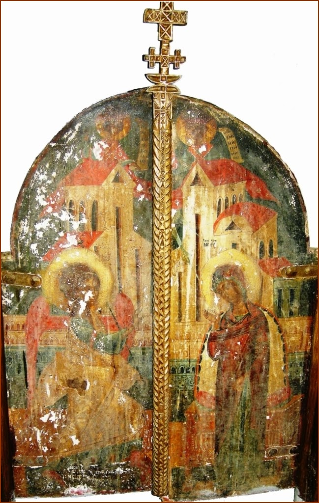 Altar Door in St. Athanasius Church Germas (Loshnitsa)